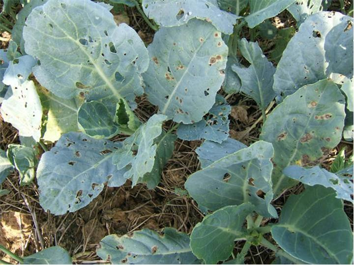 Alternaria brassicicola on Brassica alboglabra (Chinese Kale).